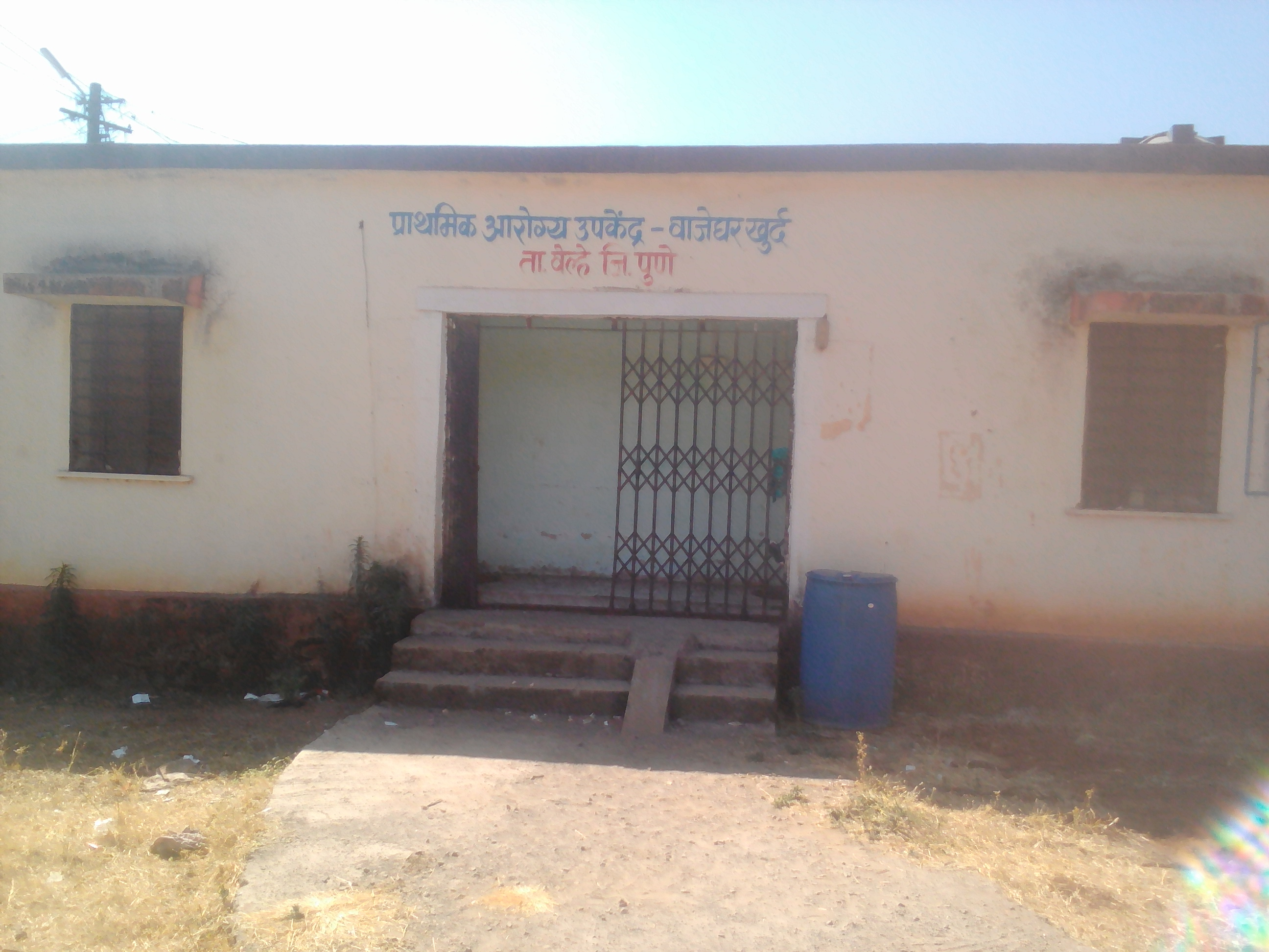 प्राथमिक आरोग्य उपकेंद्र वाजेघर खुर्द